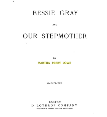 Bessie Gray ; And, Our Stepmother (1891), By Martha Perry Lowe